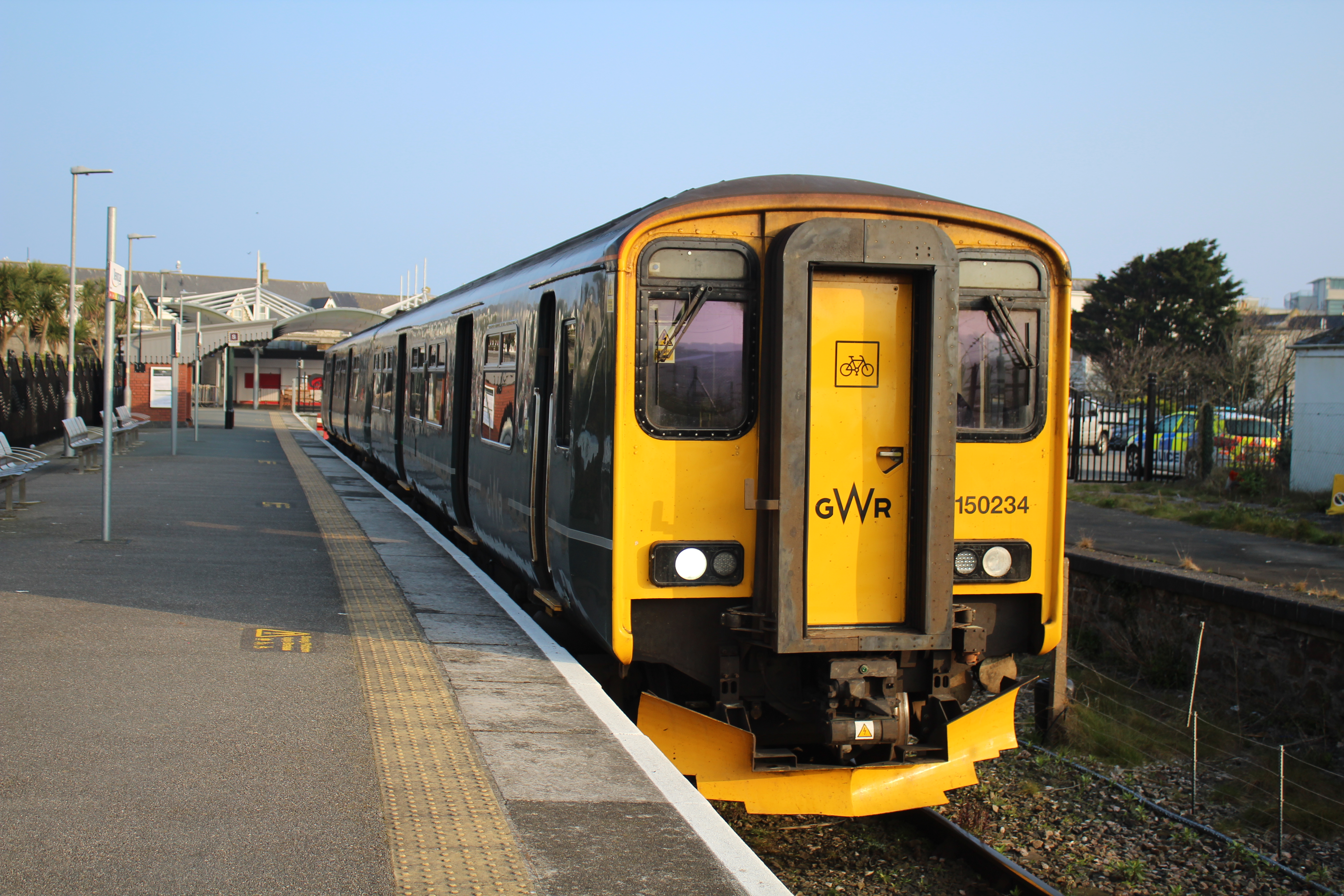 GWR 150234 sits in the morning sunrise at Newquay as it awaits the early morning Saturday service to Par.